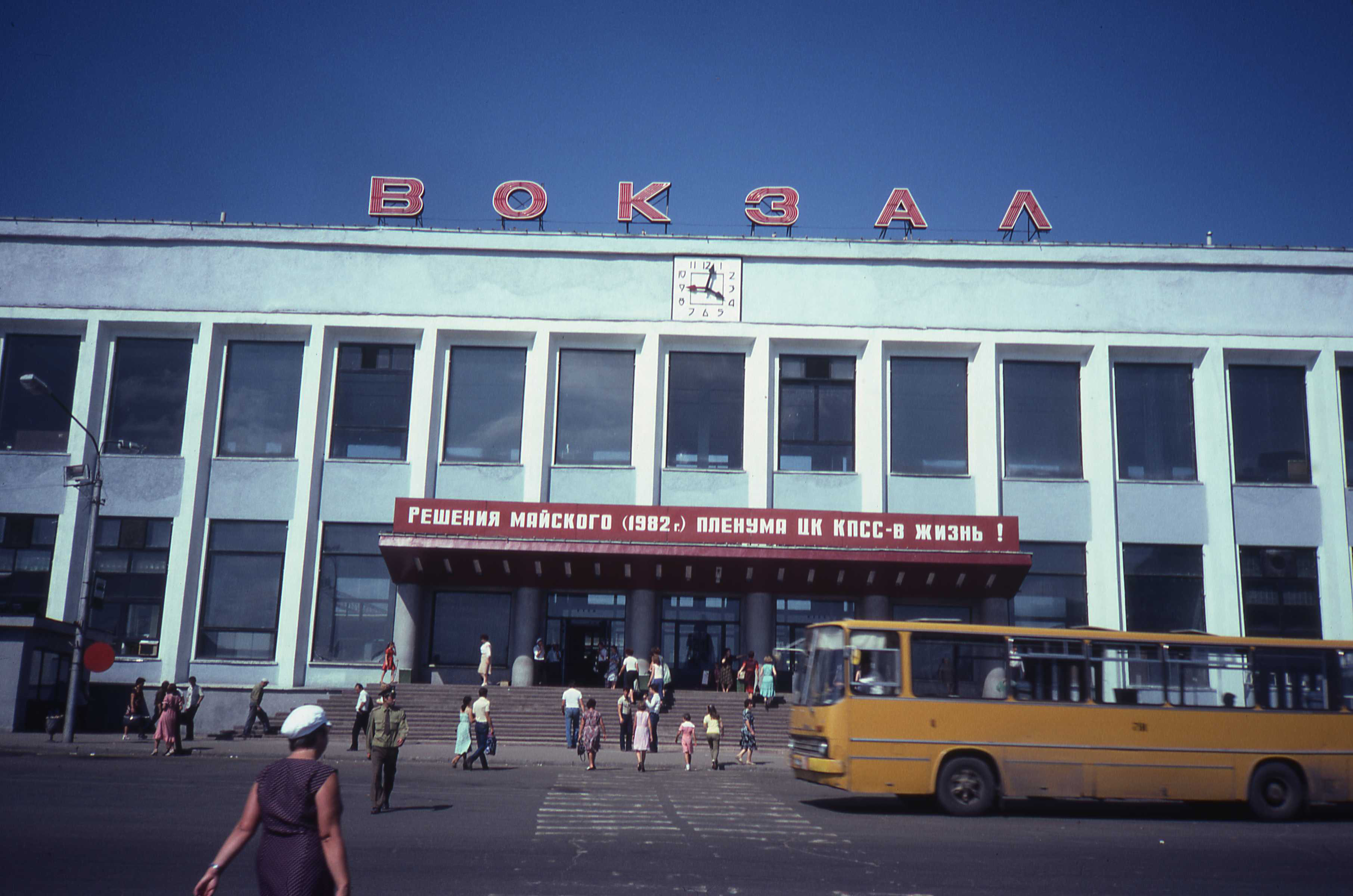 Khabarovsk I railway station